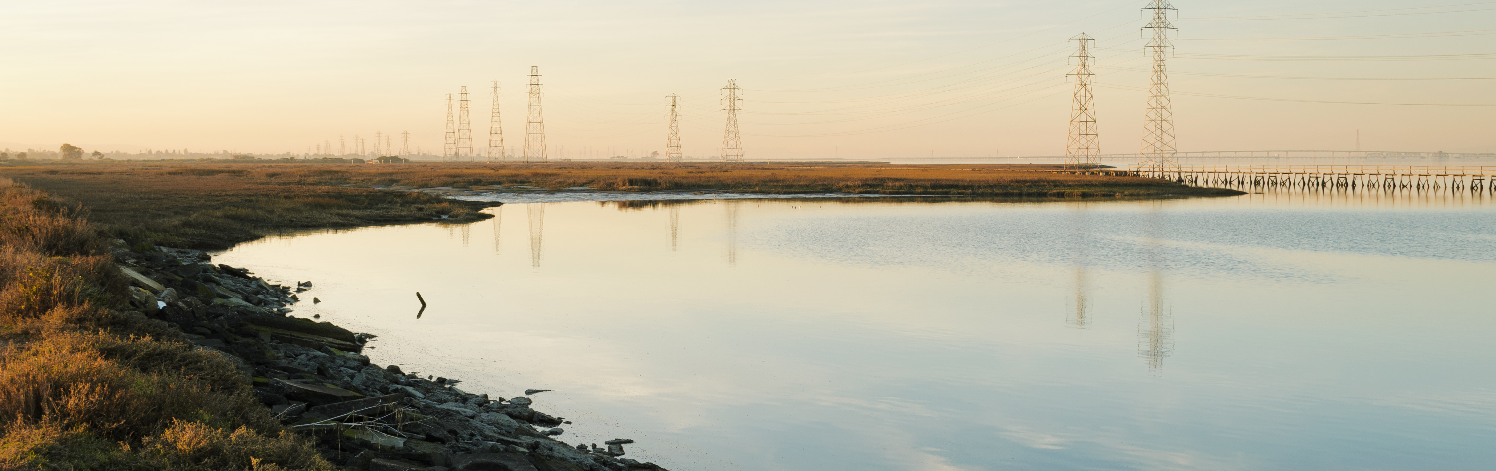 Baylands Nature Preserve, Palo Alto, California.